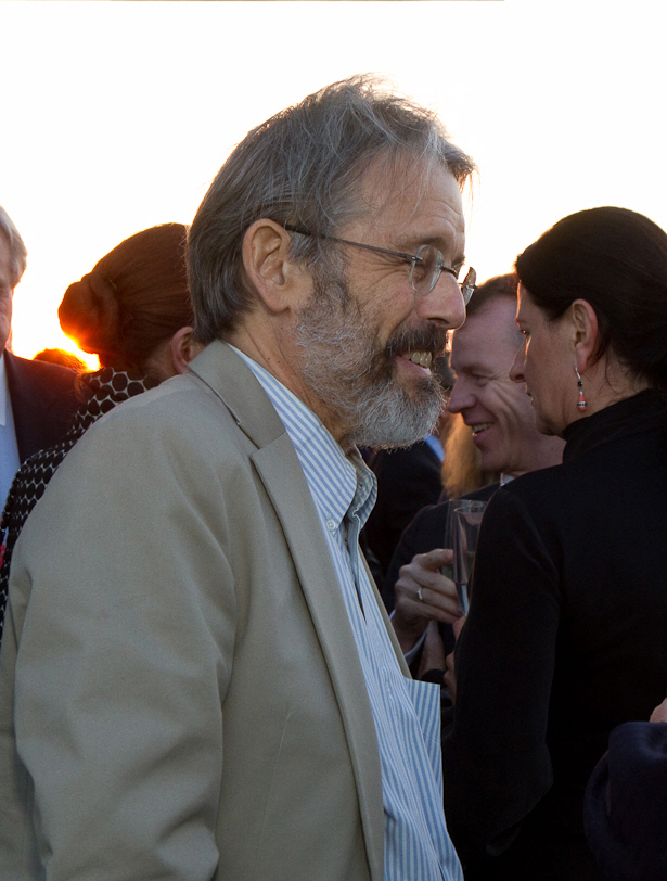 Photo credit: Grace Villamil